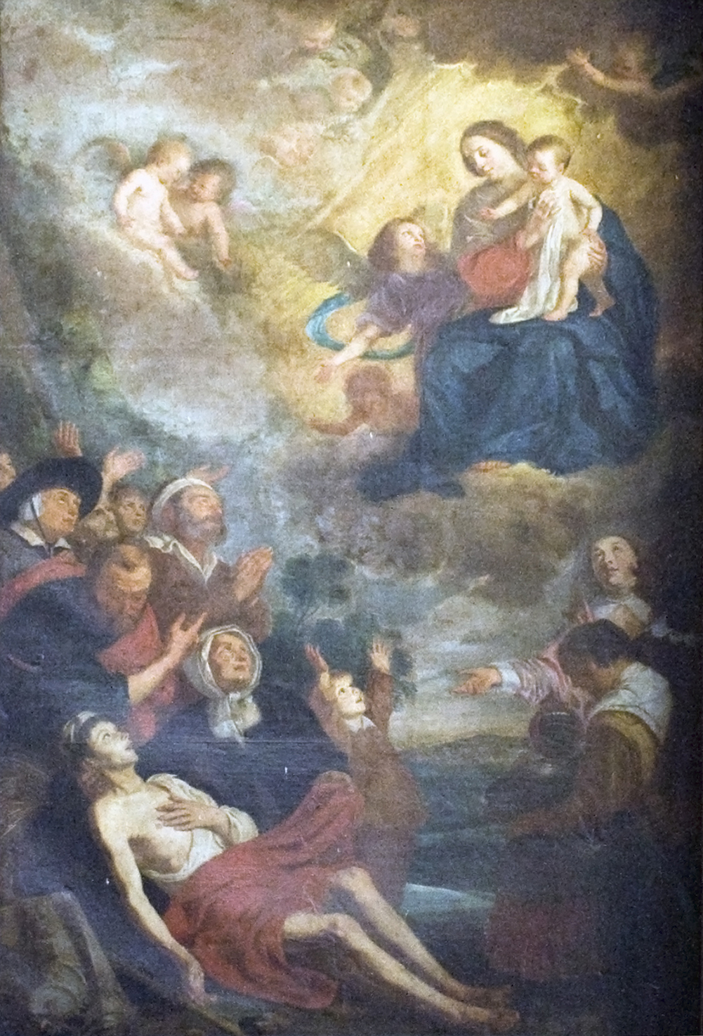 Painting of Theodoor van Thulden in the Sint-Walburgakerk (Oudenaarde)